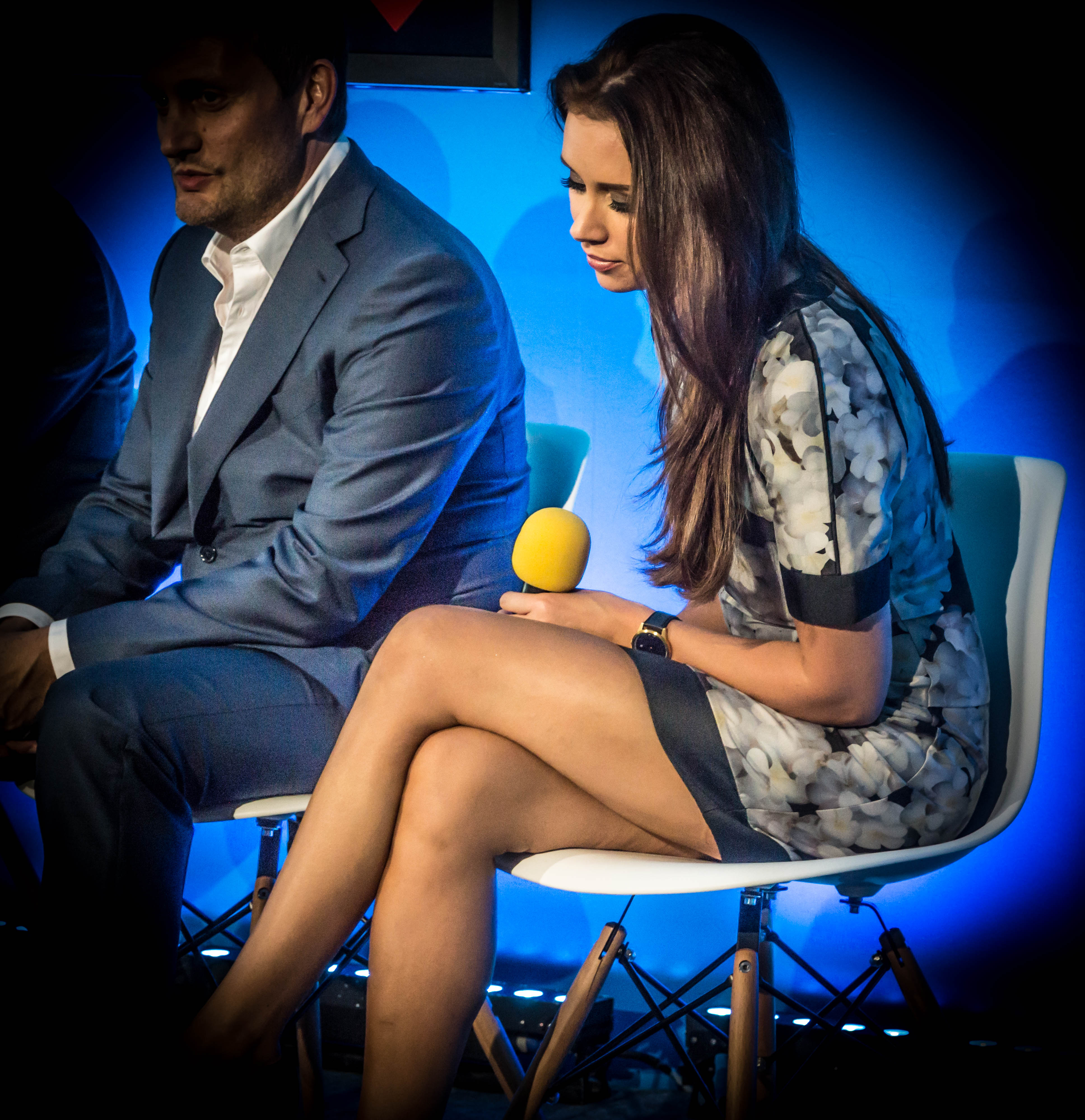 Una Theresa Imogene Foden is an Irish singer-songwriter, musician, and a television presenter. She rose to fame in 2008 as a member of English–Irish girl band The Saturdays. The group achieved substantial success with numerous top-ten hits as well as a hit number one single entitled 'What About Us'. In October 2014, it was confirmed Una would become a judge on The Voice of Ireland.